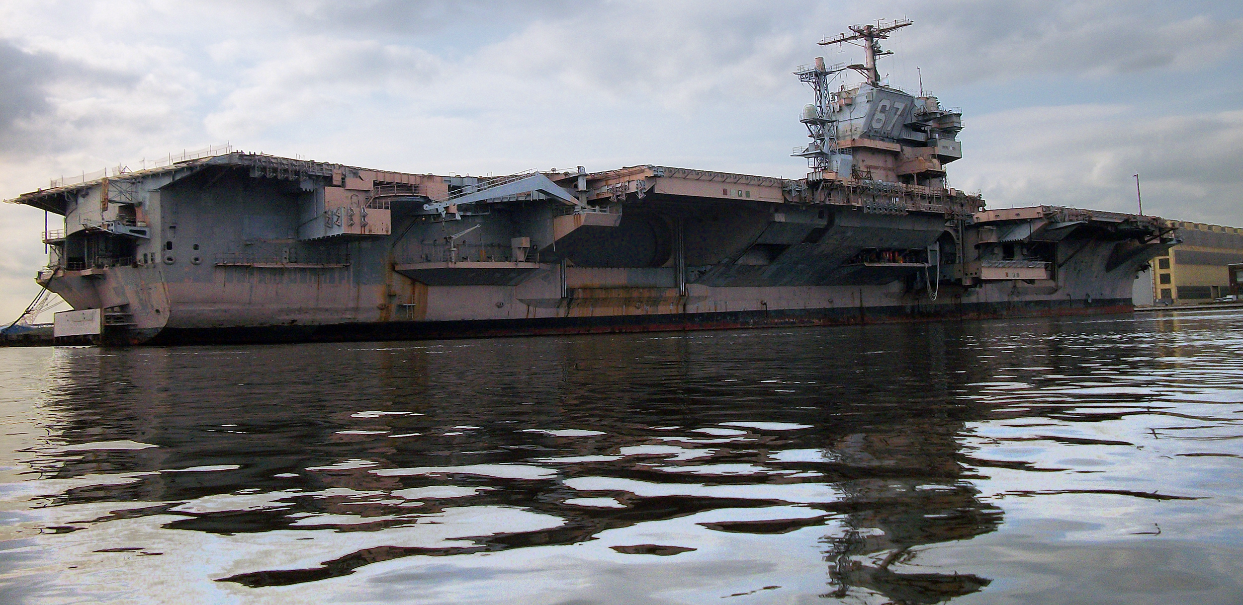 USS John F. Kennedy, starboard side, Navy Yard, Delaware River, Philadelphia - from a kayak